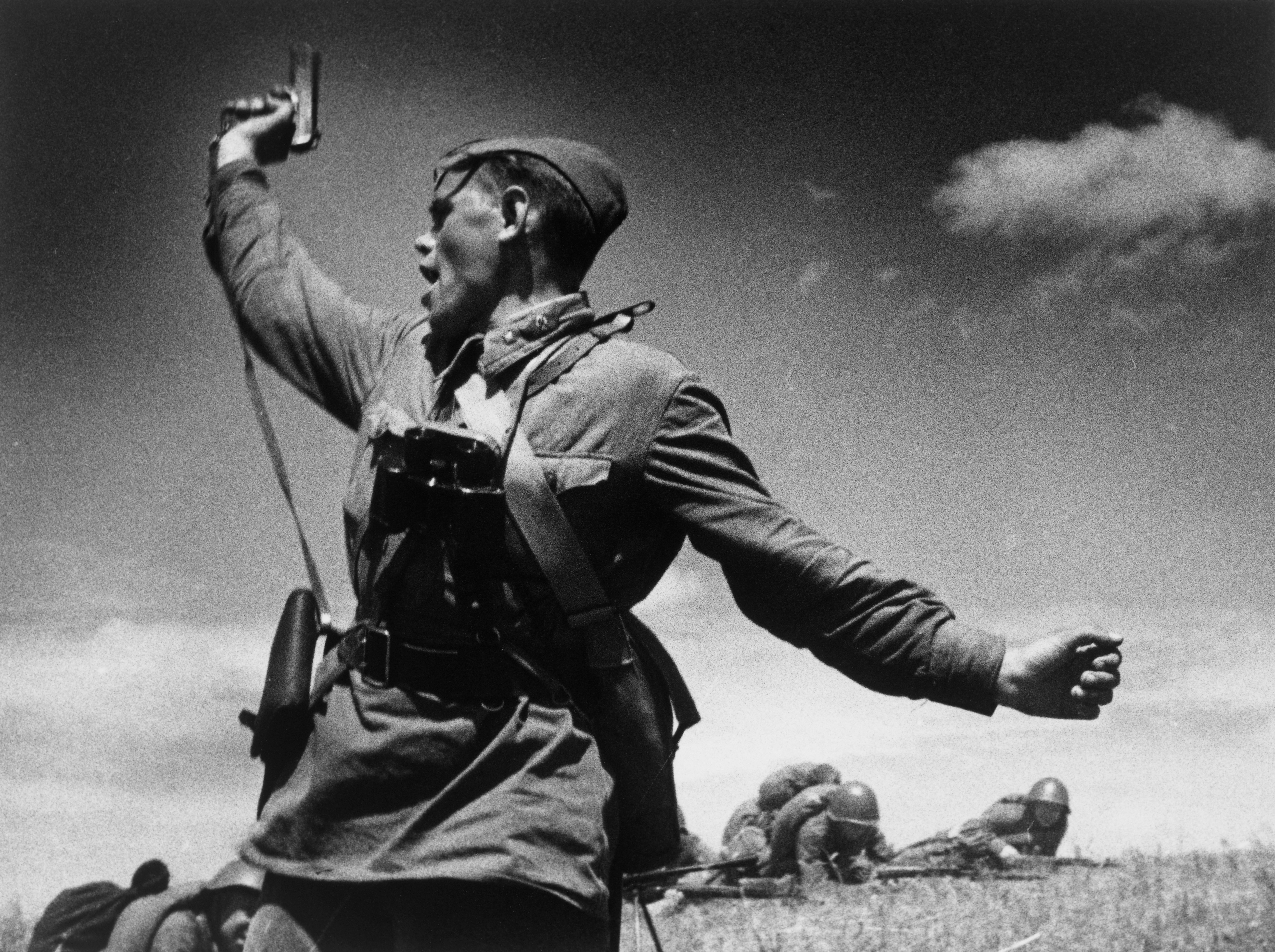 “A battalion commander”. Soviet officer leading his soldiers to the assault